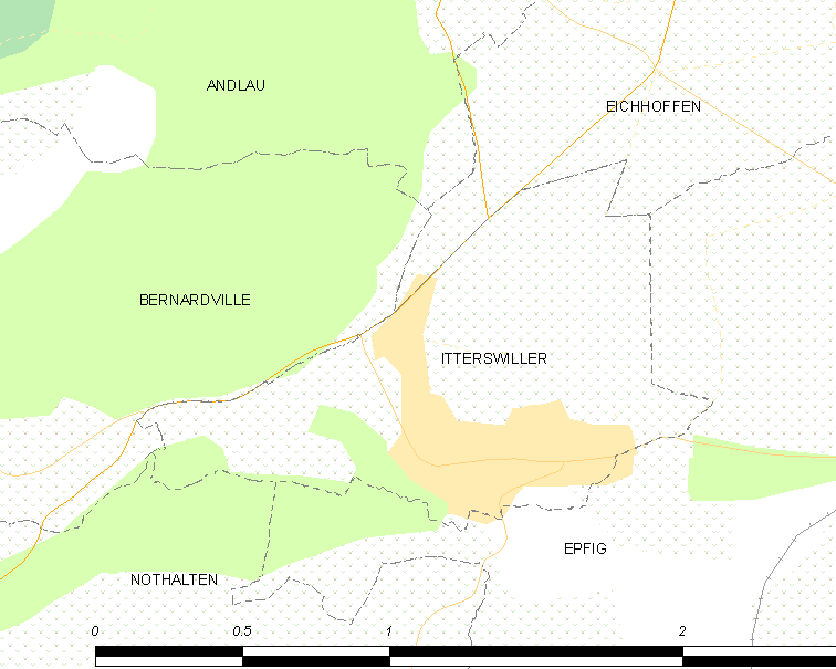 Map of French municipality